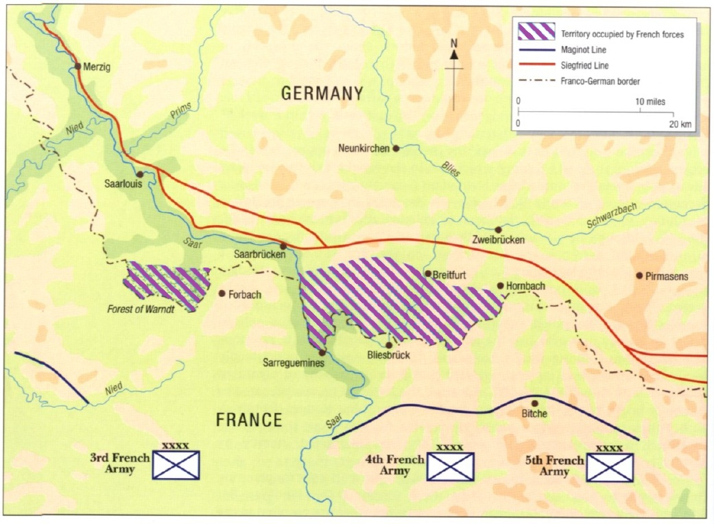 Map showing the positions of the german territory hold by the french troops during the Saar Offensive